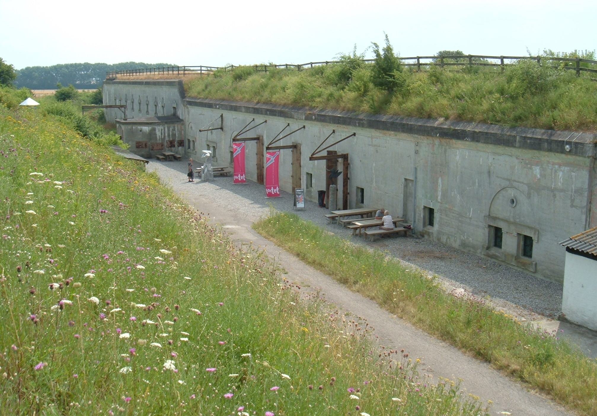 Art gallery on the small island of Masnedø in Denmark. The gallery is a converted fort dating from early 1900's. Taken by contributor, July 2006.